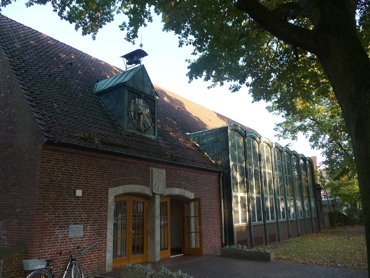 additional building at the Andreas-Church in Bremen-Groepelingen